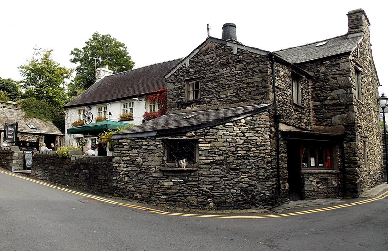 Photograph of the Hole in t'Wall public house, Bowness-on-Windermere, Cumbria, England